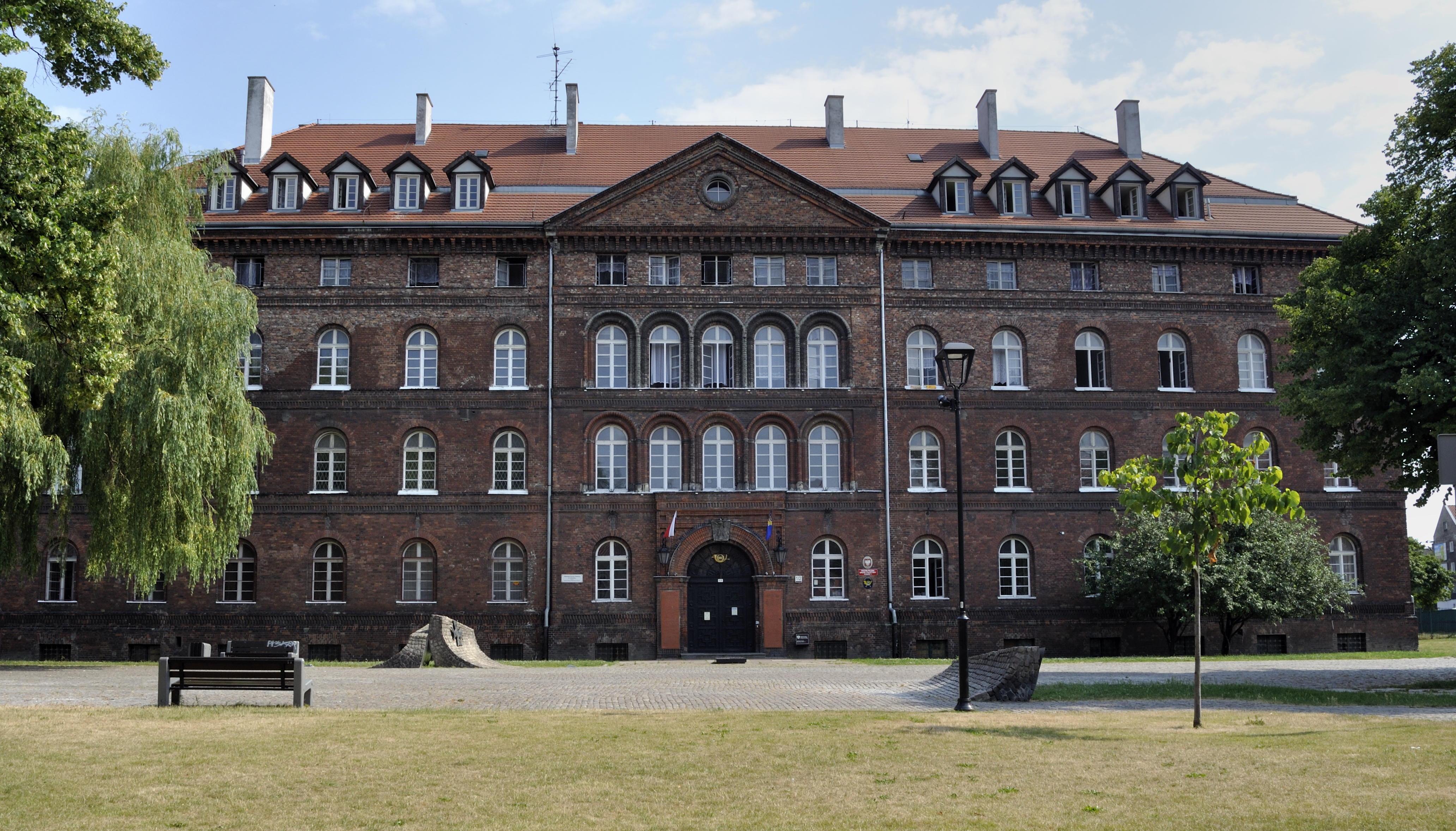 Picture taken in Gdańsk after Wikimania 2010 conference.